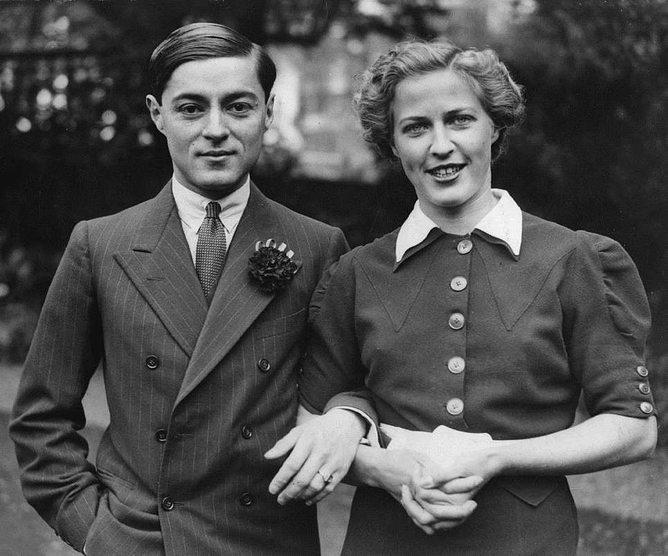 Prince Chula of Siam with his English fiancee